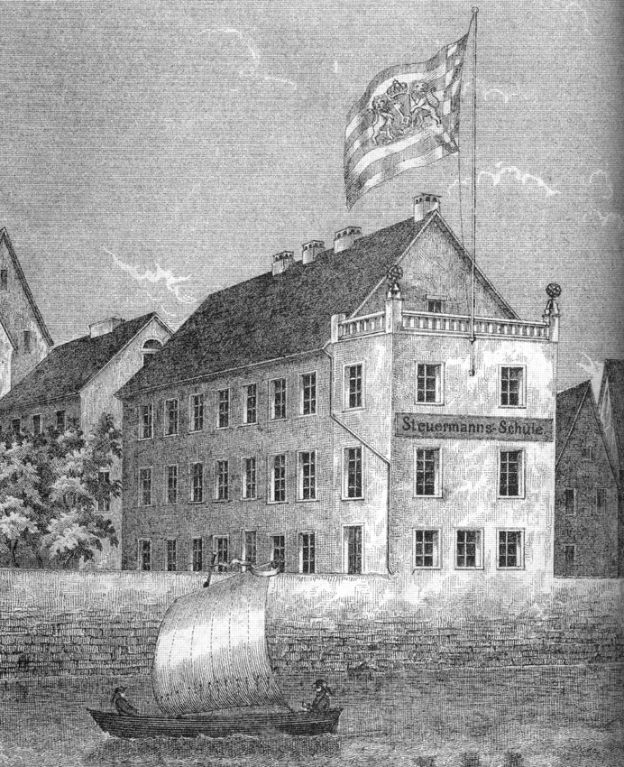 The Steuermannschule (“Steersman school”) in Bremen, Germany, 1854/1855.